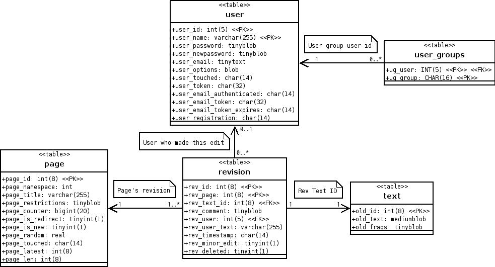 An UML class diagram describing a wiki system (a part of MediaWiki database schema).